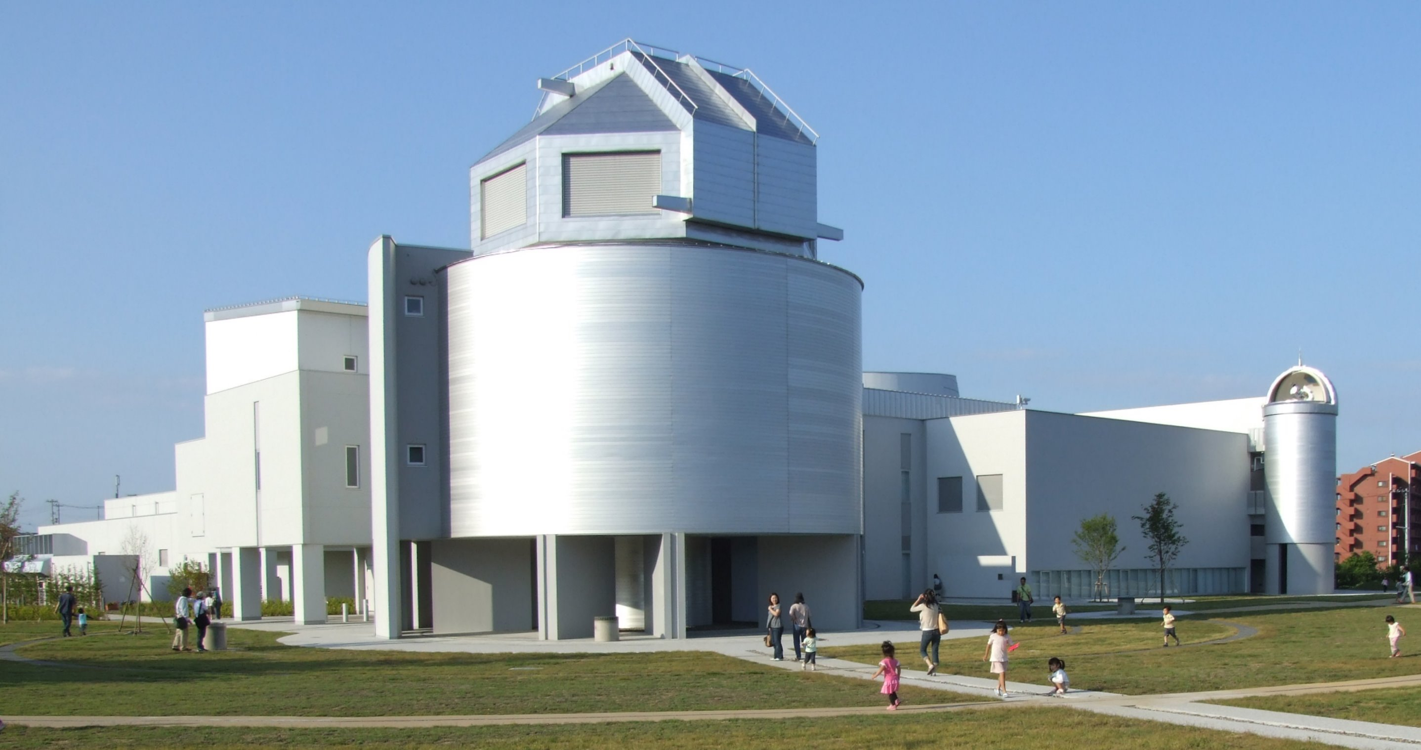 Sendai Astronomical Observatory. Nishikigaoka 9 chōme, Aoba ward, Sendai, Miyagi prefecture, Japan. The Obsavation Building from the Planets Plaza.